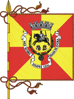 Flag of Évora municipality, Portugal